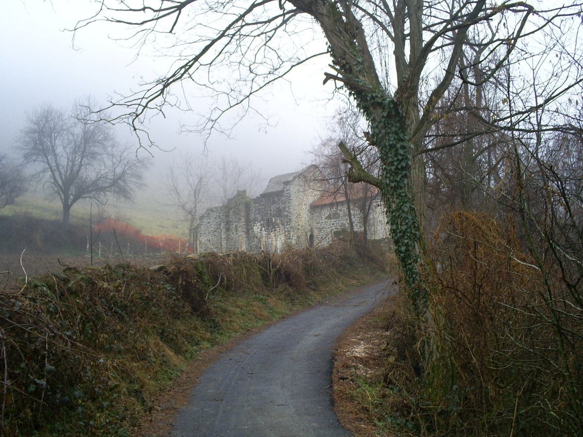 Ruins of medieval monastery called Crkvina in Slavkovica,Ljig municipality,Serbia.